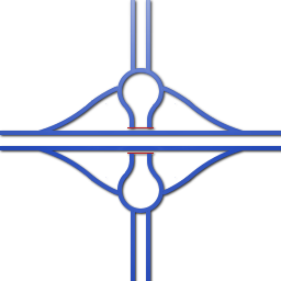 Dumbbell Road Interchange